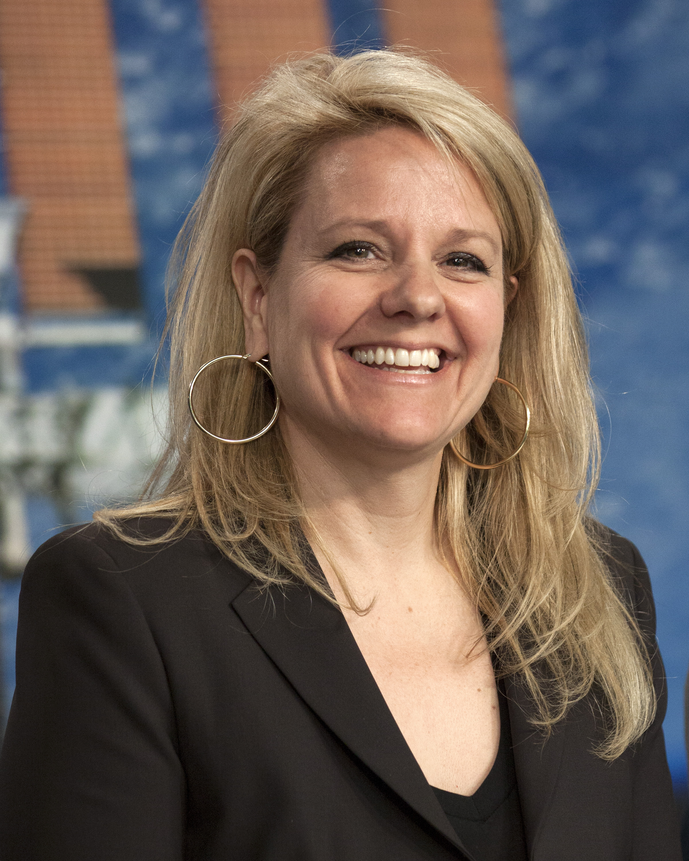 Media attending a pre-launch news conference at the Kennedy Space Center, Fla. heard from Gwynne Shotwell, president of SpaceX. Scheduled for launch March 1 atop a Falcon 9 rocket, the SpaceX Dragon capsule will be making its third trip to the space station. The mission is the second of 12 SpaceX flights contracted by NASA to resupply the orbiting laboratory.